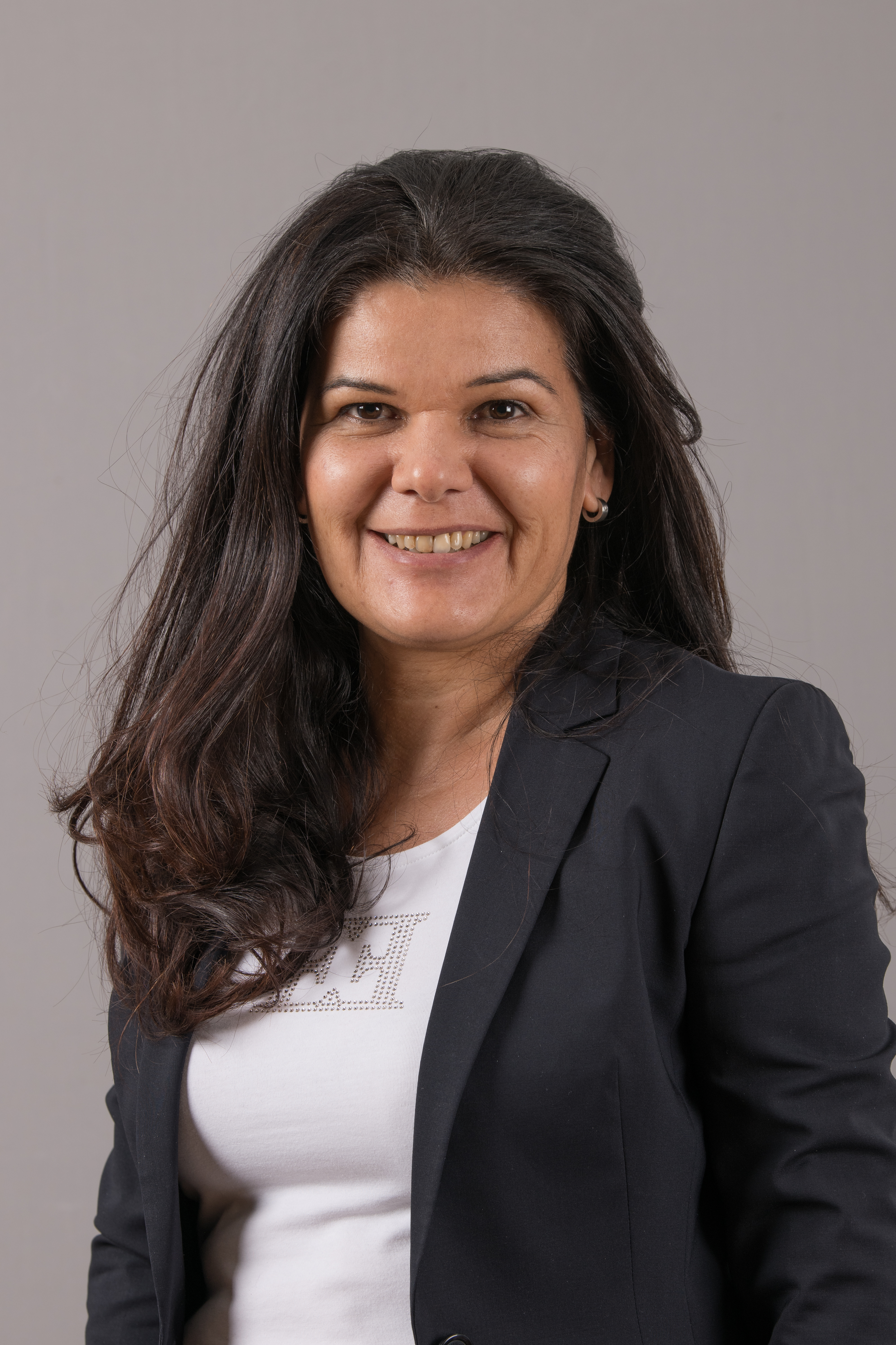 13/12/17, Bregenz/Vorarlberg, Landtagsprojekt Vorarlberg. Picture shows Sandra Schoch (Grüne), delegate to the Vorarlberger Landtag since 2014